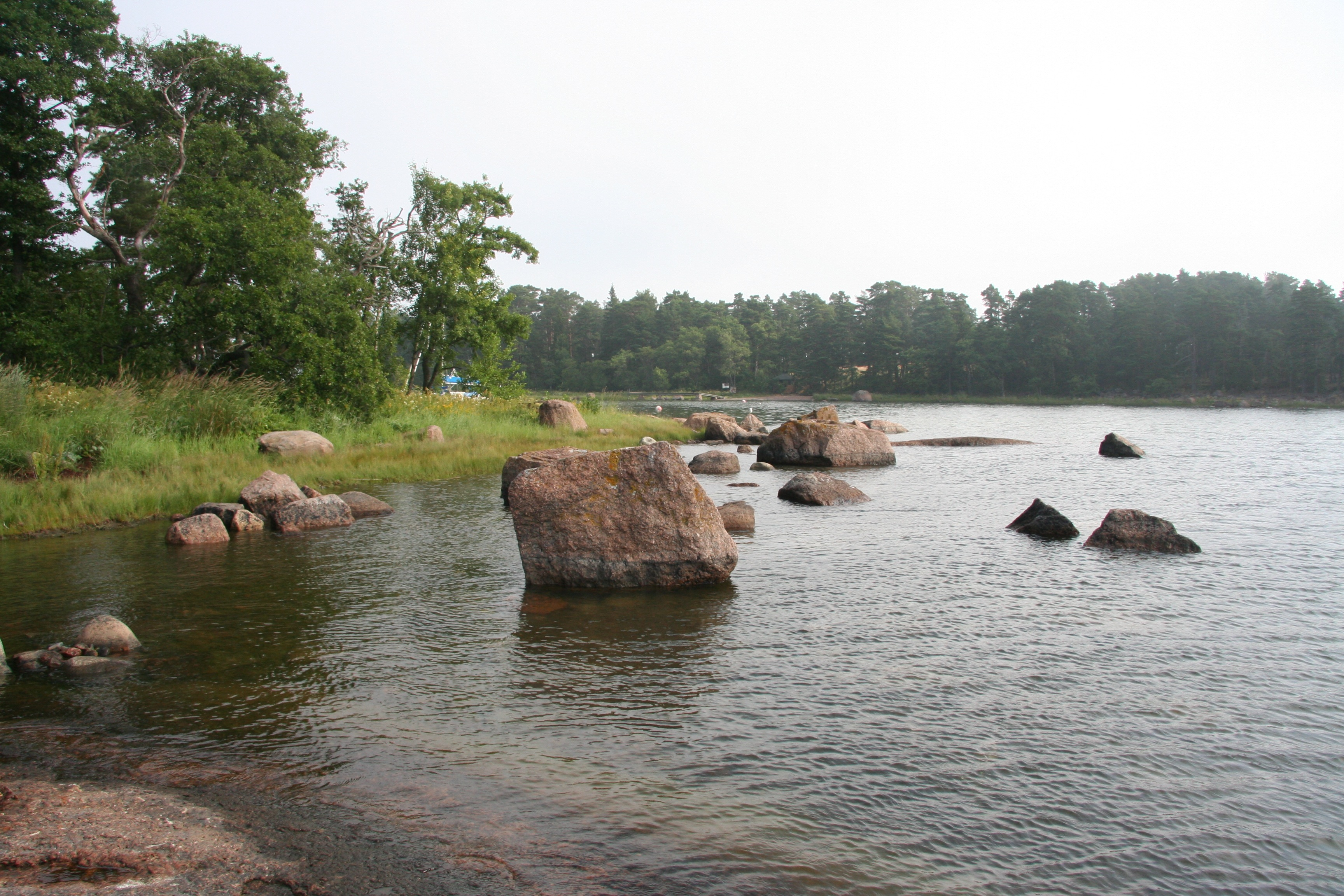 Äggskär, Pellinki, Porvoo, Finland